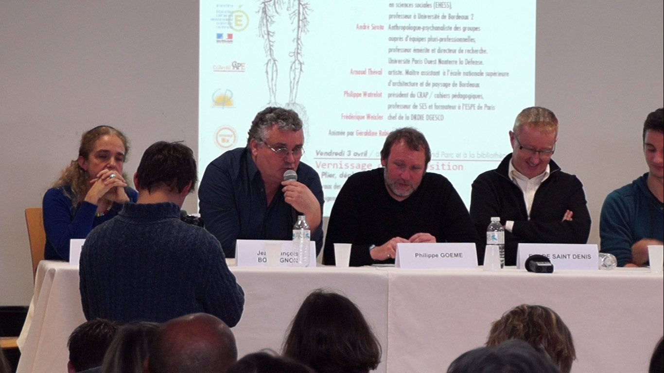 ConfFespi